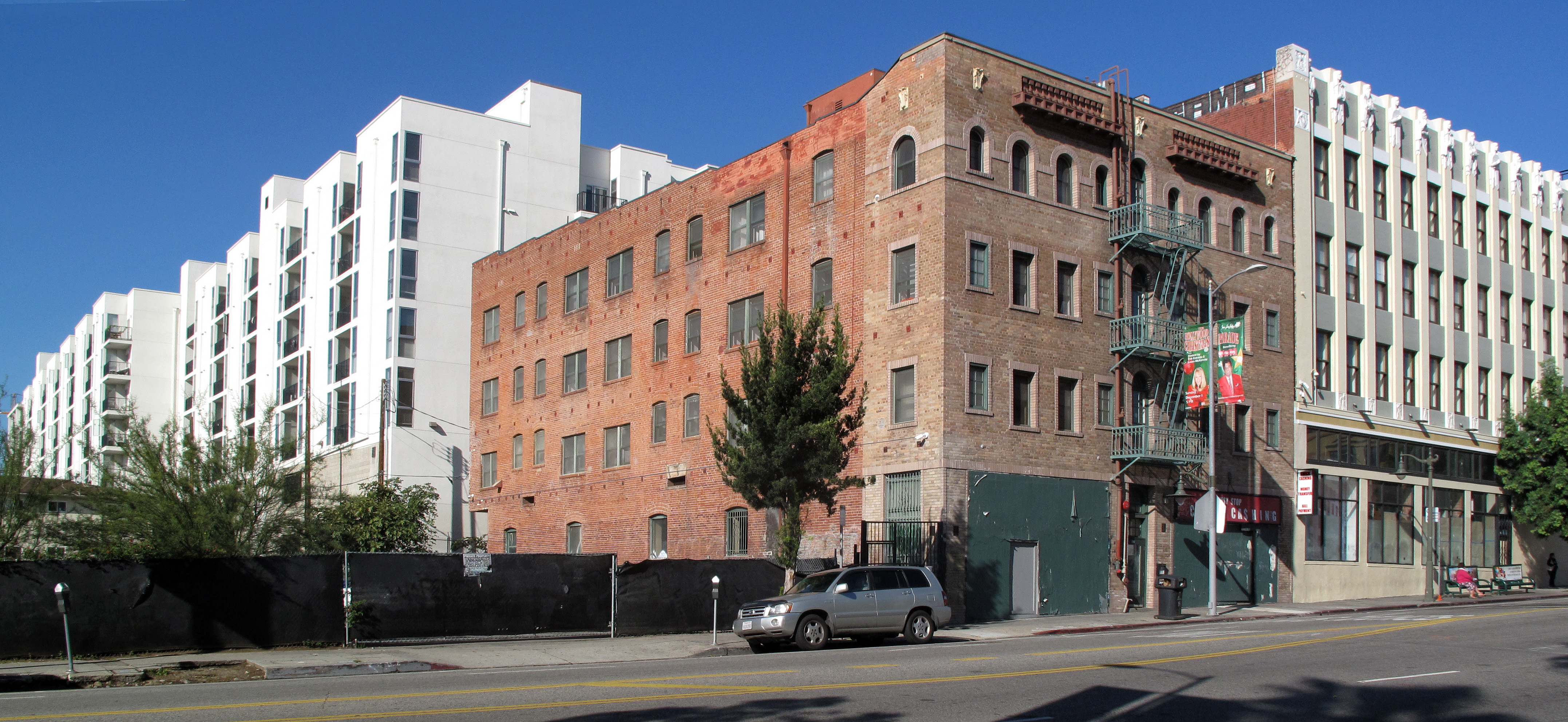 Bricker Building, with retail on the ground floor and apartments. In the East Hollywood neighborhood of Los Angeles. Just south of Hollywood Blvd/Western Avenue intersection.